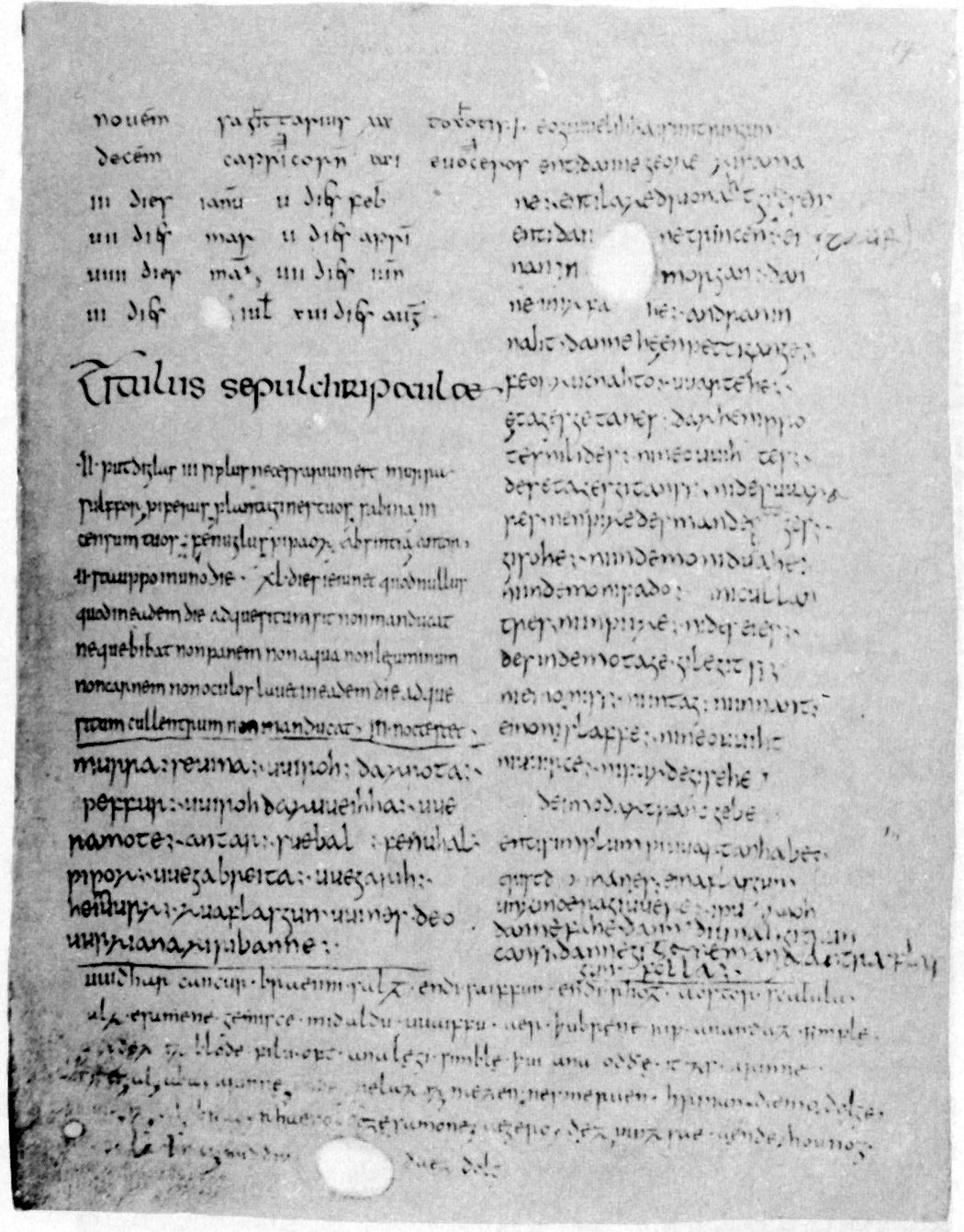 The Basler Rezepte (Basel recipies, or Fulda recipies) are 3 medieval medical recipies, the first one in Latin, the second one is the translation of the first into a mixed Old-Bavarian/Old-Frankonian. The third recipie (uuidhar cancur - against cancer) is written in a very old form of Bavarian with either Gothic, Old-English or Old-Saxonian influence. The manuscript was written in the 8th century in the monastry of Fulda and is today in the university library in Basel, Switzerland.